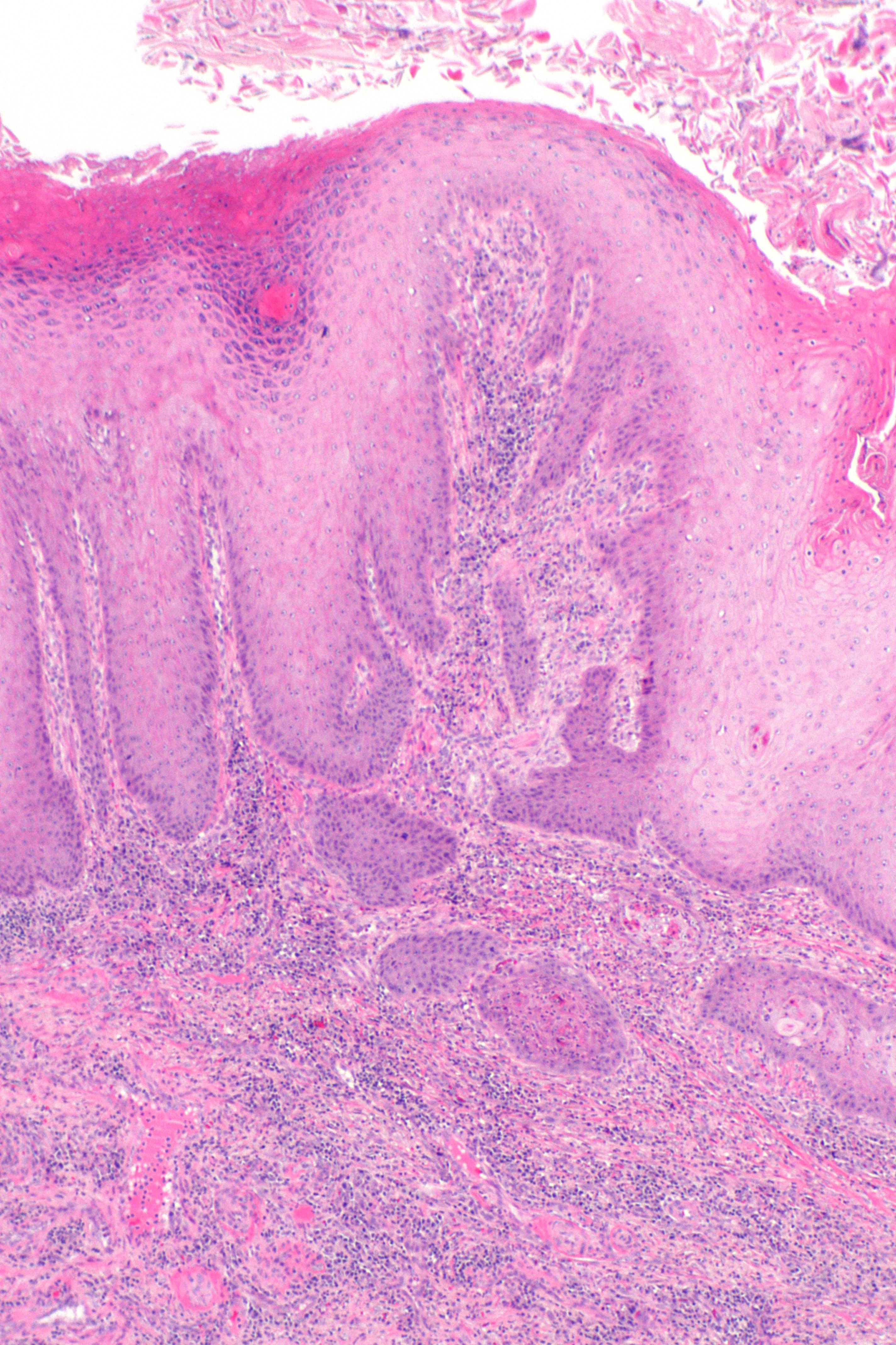 Micrograph showing squamous cell carcinoma (or squamous carcinoma) of the penis, the most common form of penile cancer. H&E stain. Related images Penile SCC - low mag. Penile SCC - high mag. Penile SCC - high mag. Penile SCC - intermed. mag. Penile SCC - high mag.